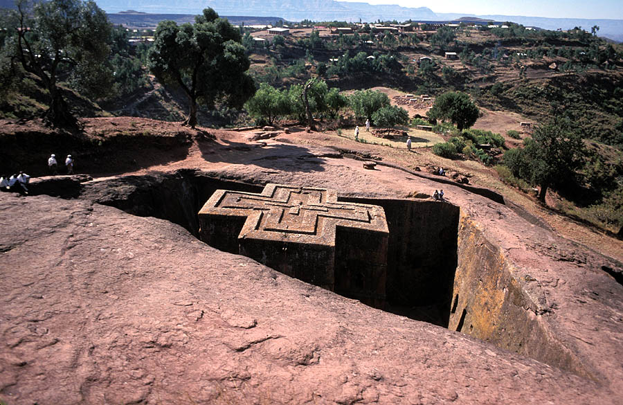 Bete Giyorgis, the Church of St. George, in Lalibela, Ethiopia.